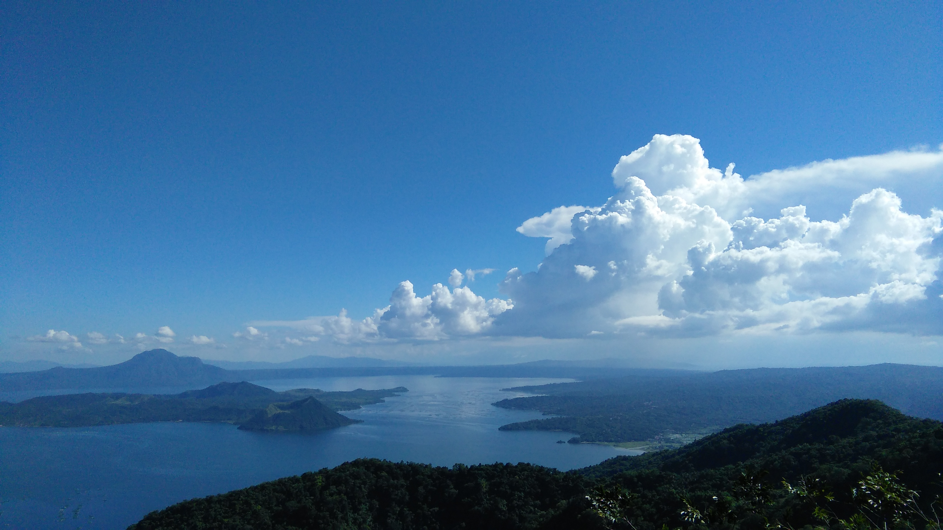 Taal Volcano is a complex volcano located on the island of Luzon in the Philippines. It is the second most active volcano in the Philippines with 33 historical eruptions. Uploaded as entry to Wiki Loves Earth (2018). Coordinates: 14°0′7″N 120°59′34″E